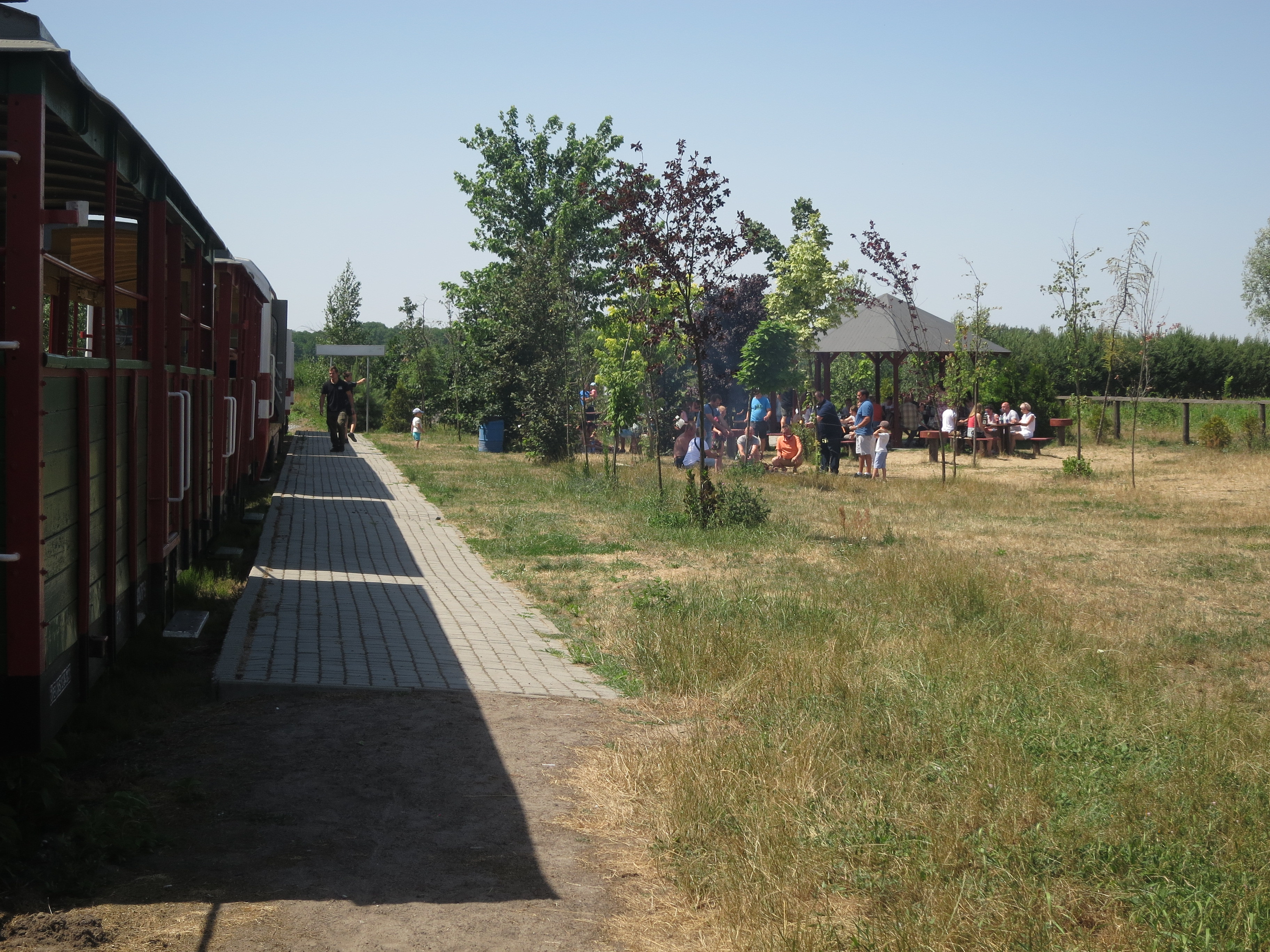 Nadwiślańska Narrow Gauge Railway (formerly: Nałęczów Commuter Railway) - general view of the Polanówka station